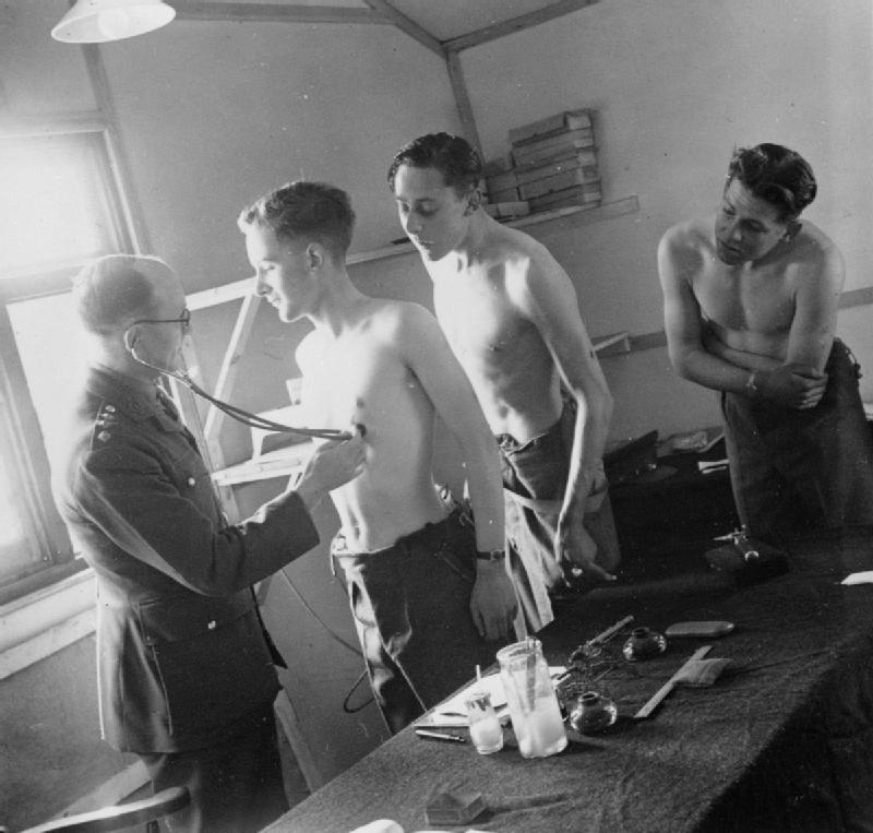 The British Army in the United Kingdom 1939-45 A medical officer examines recruits during a medical inspection at an infantry training centre in Southern Command, 1 April 1942.